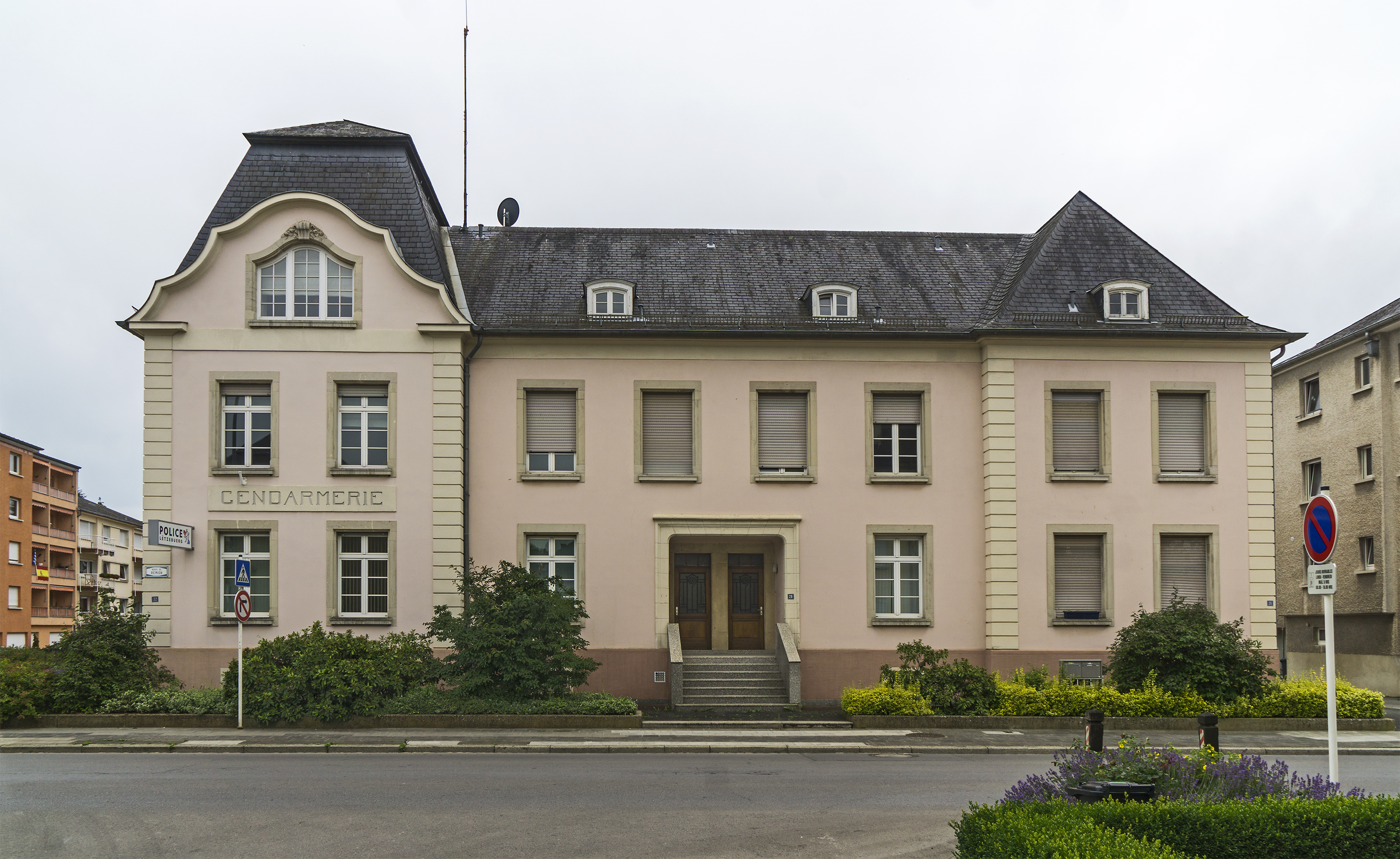 The Gendarmerie-building in Mondorf-les-Bains, 26-32 route de Remich